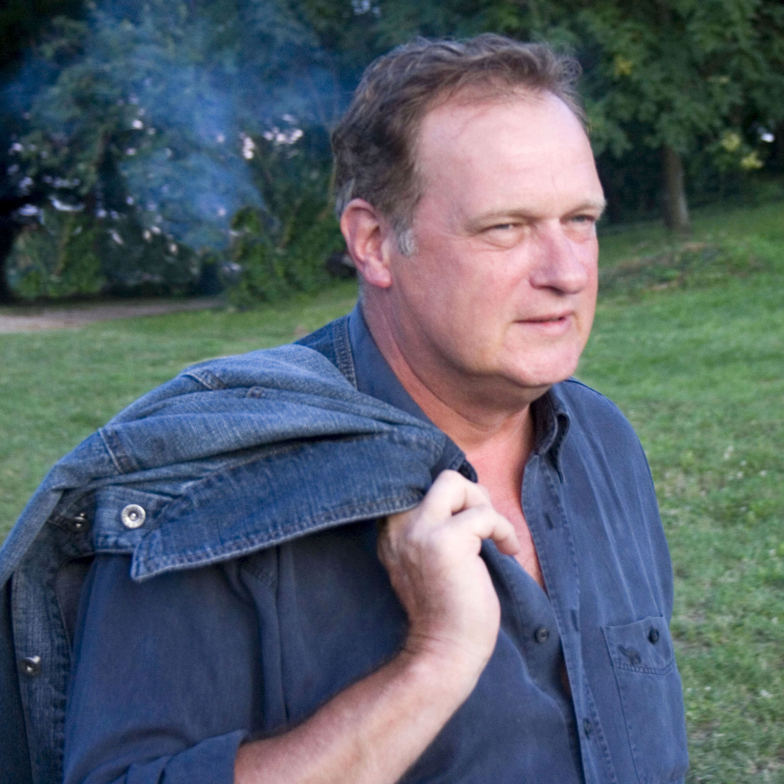 Baliko Tamas hungarian actor - august 2010 Siklos / Hungary